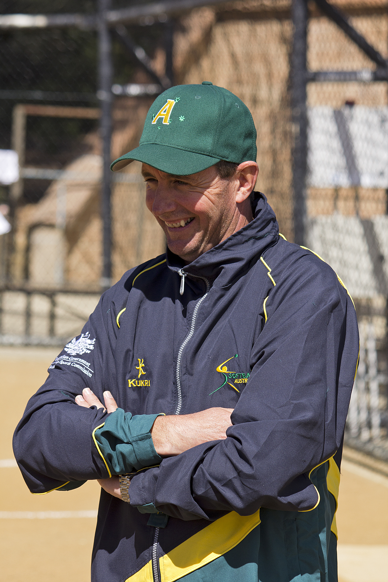 Australian softball head coach, Kere Johanson during a photoshoot.